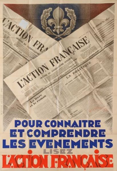 Affiche de promotion du quotidien royaliste et monarchiste français l'action française (1931)